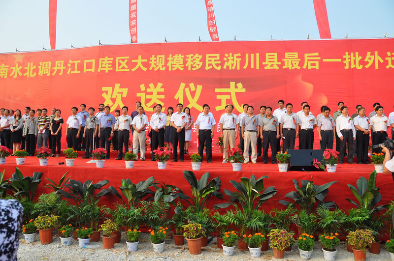 Xichuan yimin